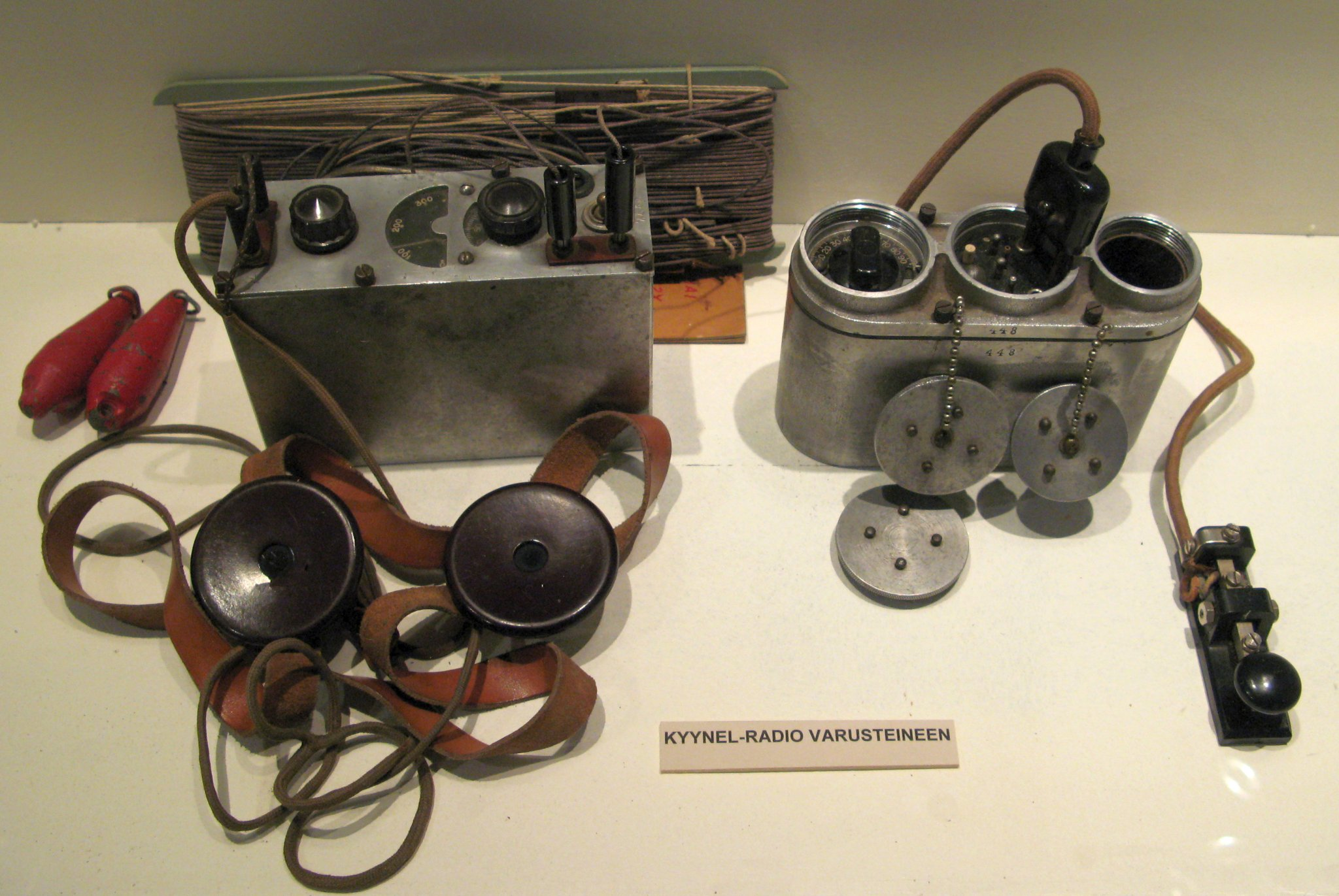 Finnish guerillaradio "Kyynel" from 1941